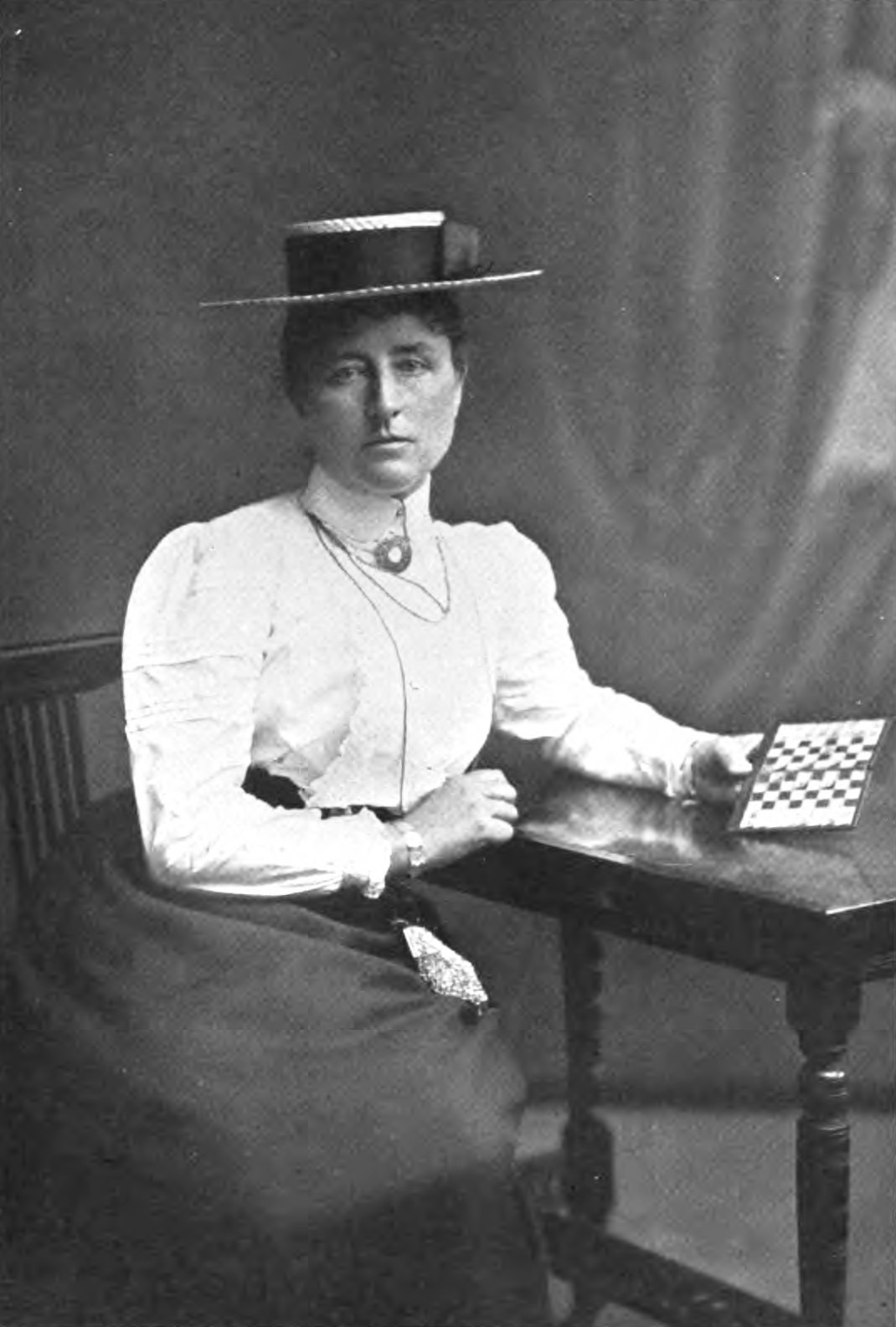 Edith Elina Helen Baird (1859-1924) on a frontispiece of her book "20th Century Retractor", London, 1907, as can be seen at